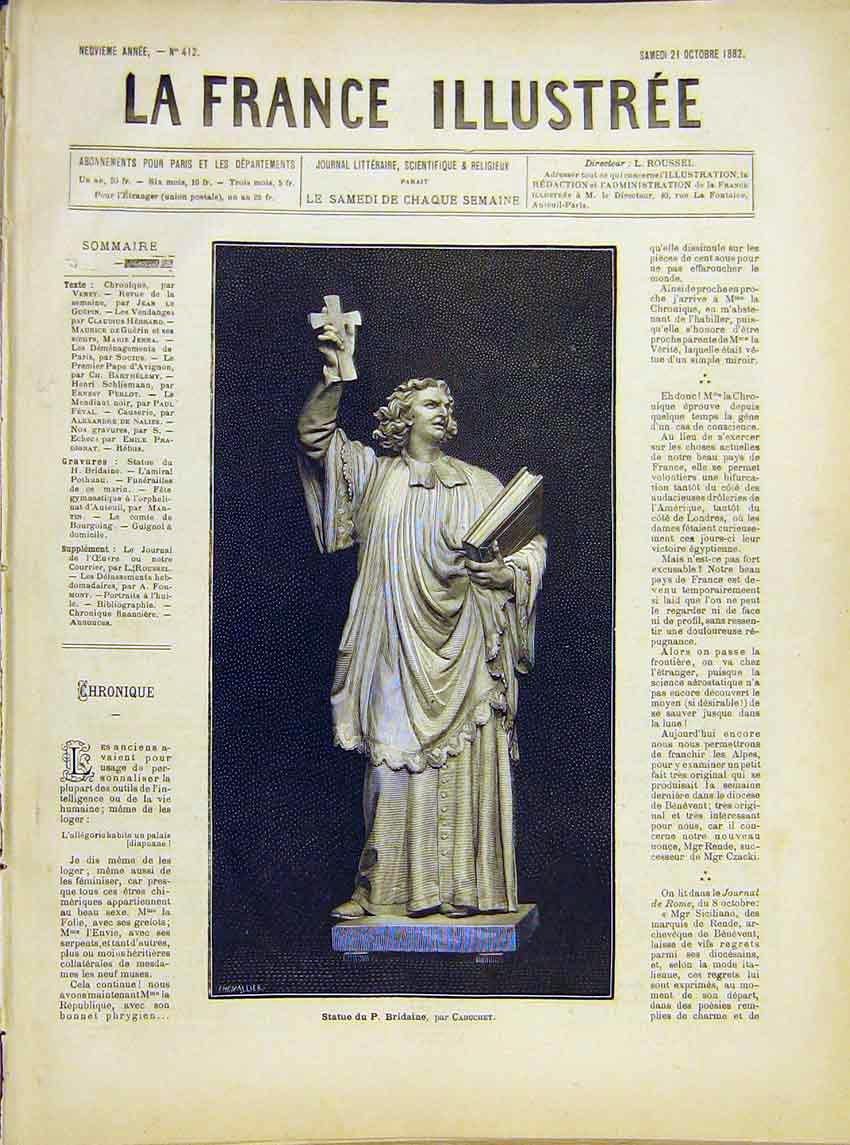 Statue of P. Bridaine by Émilien Cabuchet